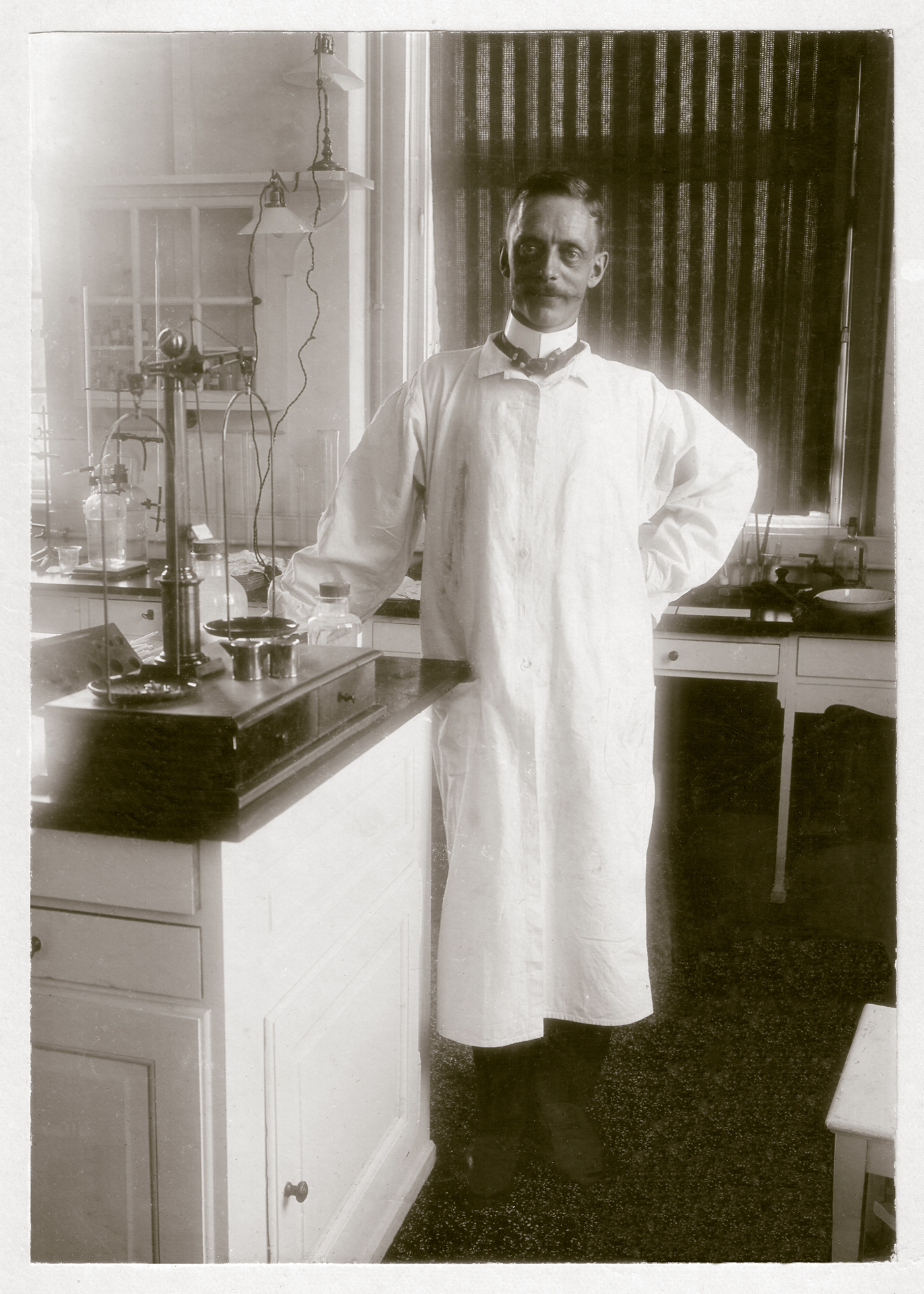 Theodor Frølich, Norwegian physician and scientist, in his laboratory at the University of Kristiania (Oslo) around 1910, while studying how to fight scurvy. Scan of photo by unknown photographer.